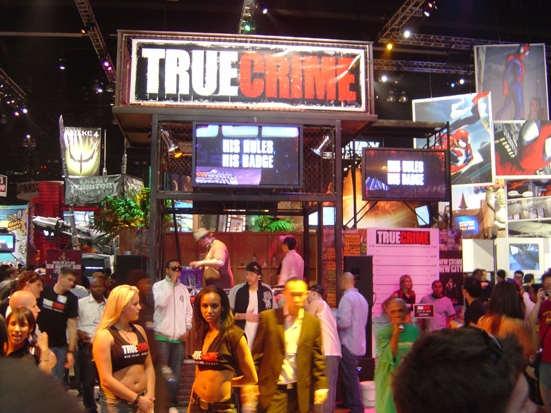 Taken on May 18, 2005 Dowtown Carrier Annex, Los Angeles, CA, US Sony DSC-P10